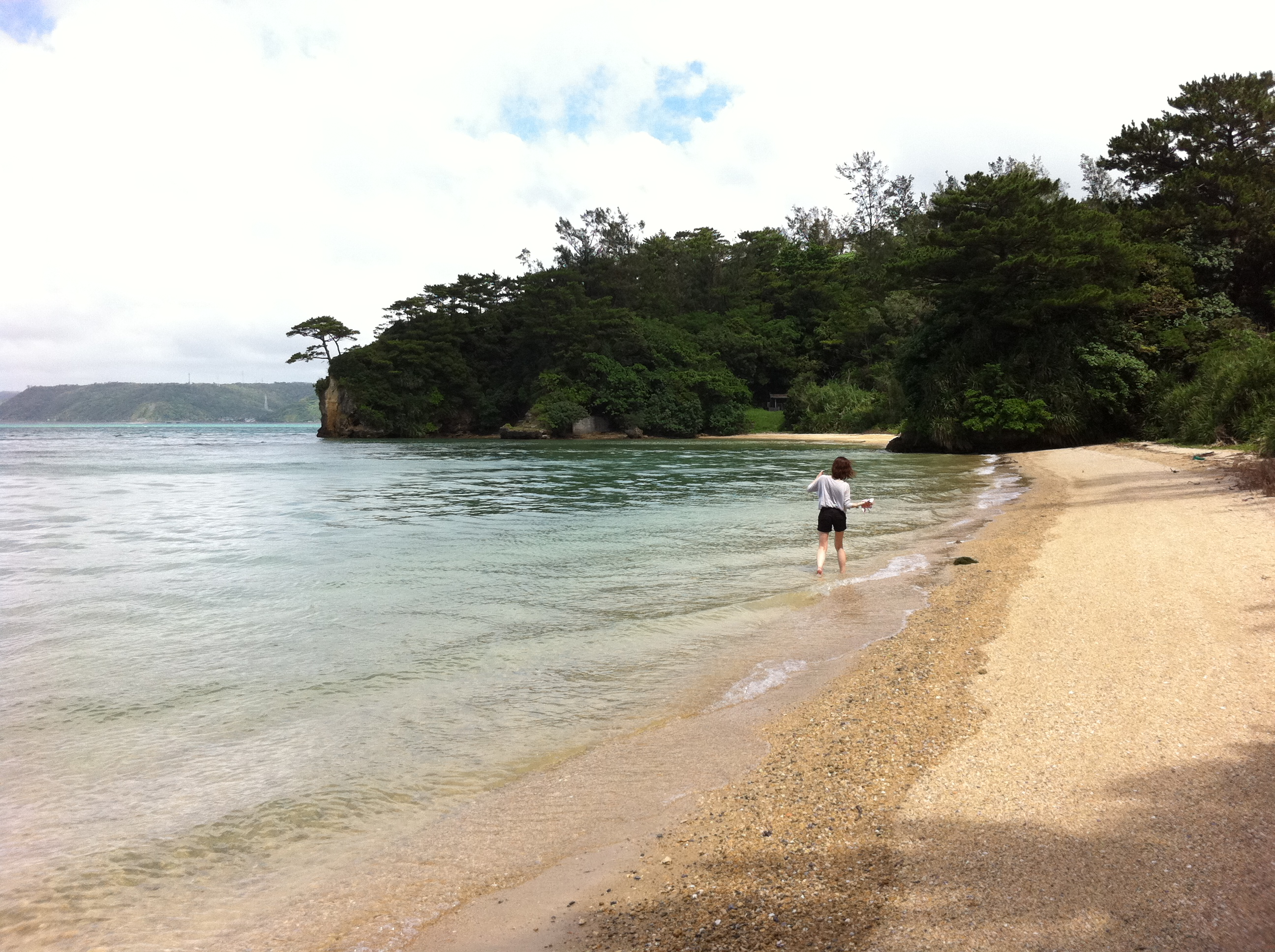 A beach in Ou Island, Nago, Okinawa Prefecture, Japan